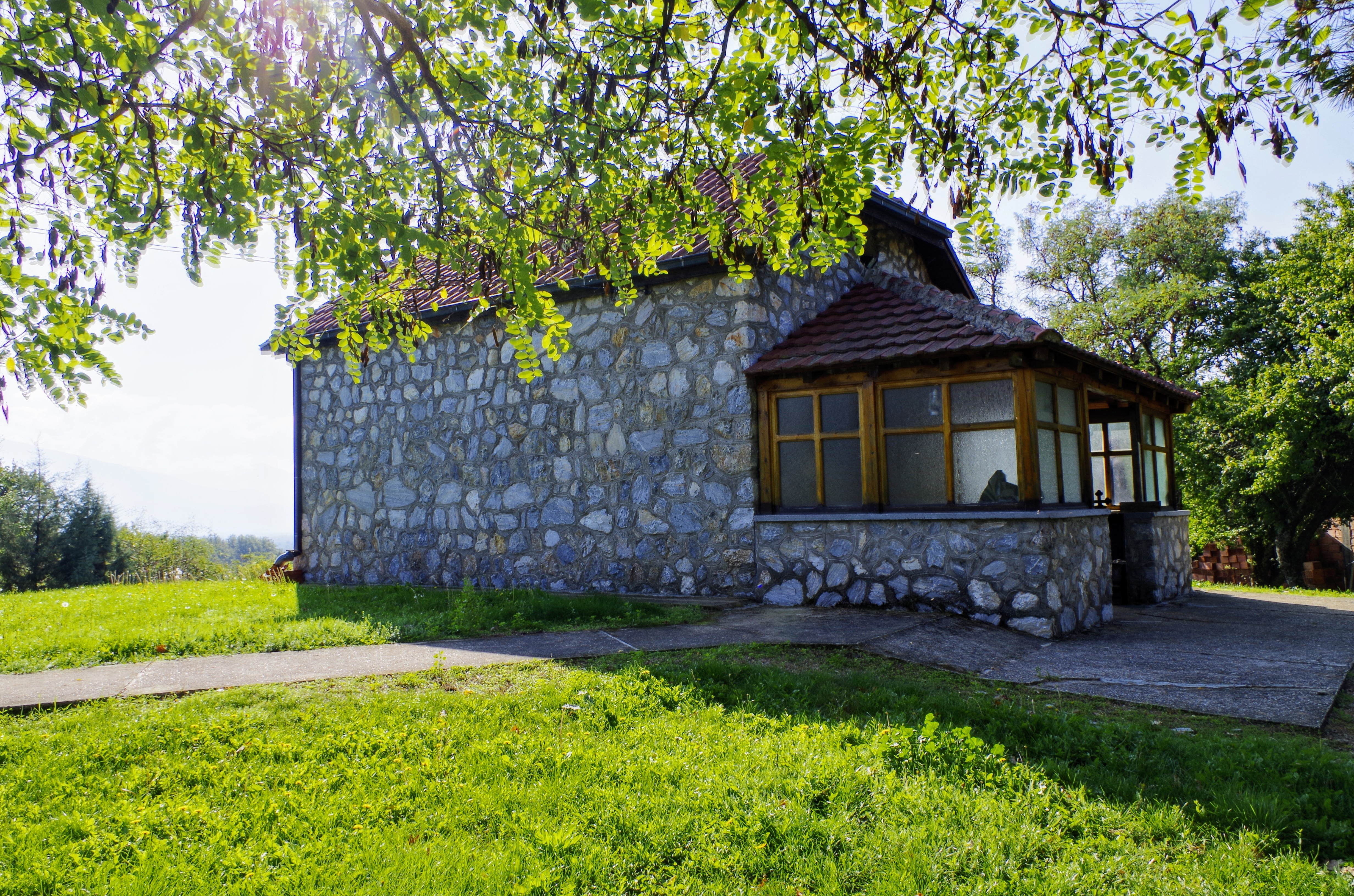 View of St. Elijah Church in the village Preljubje